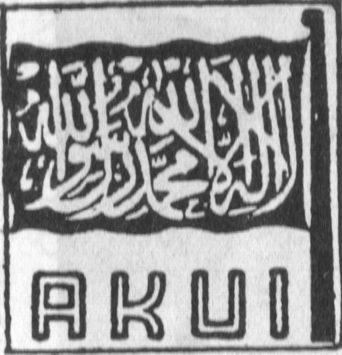 Symbol of the 28 elected political parties in the 1955 Indonesian legislative election. The torn one is from the Indonesia Communist Party.